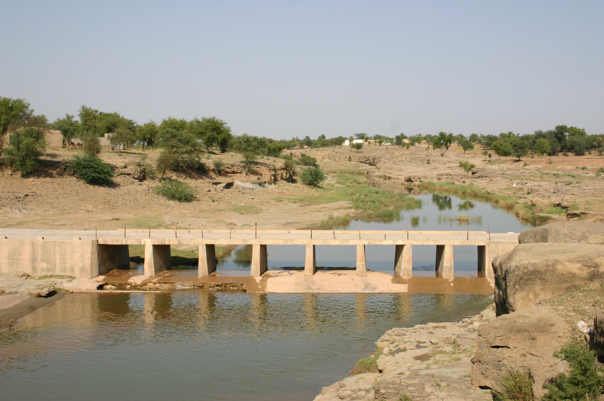 Bridge in Chura Sharif, Punjab, Pakistan